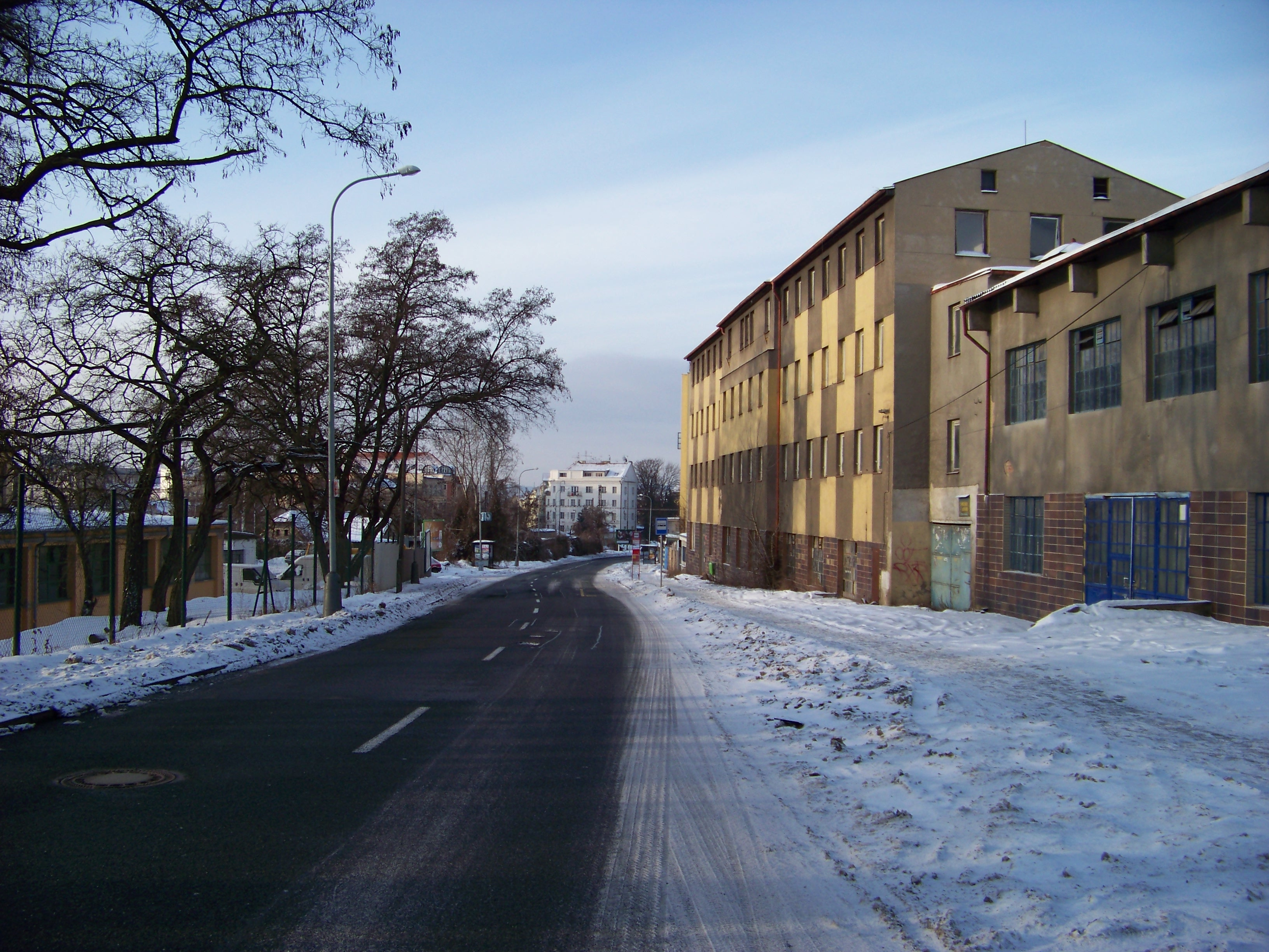 Prague-Vysočany, the Czech Republic. Ke Klíčovu street, near Odkolek bakery and mills.